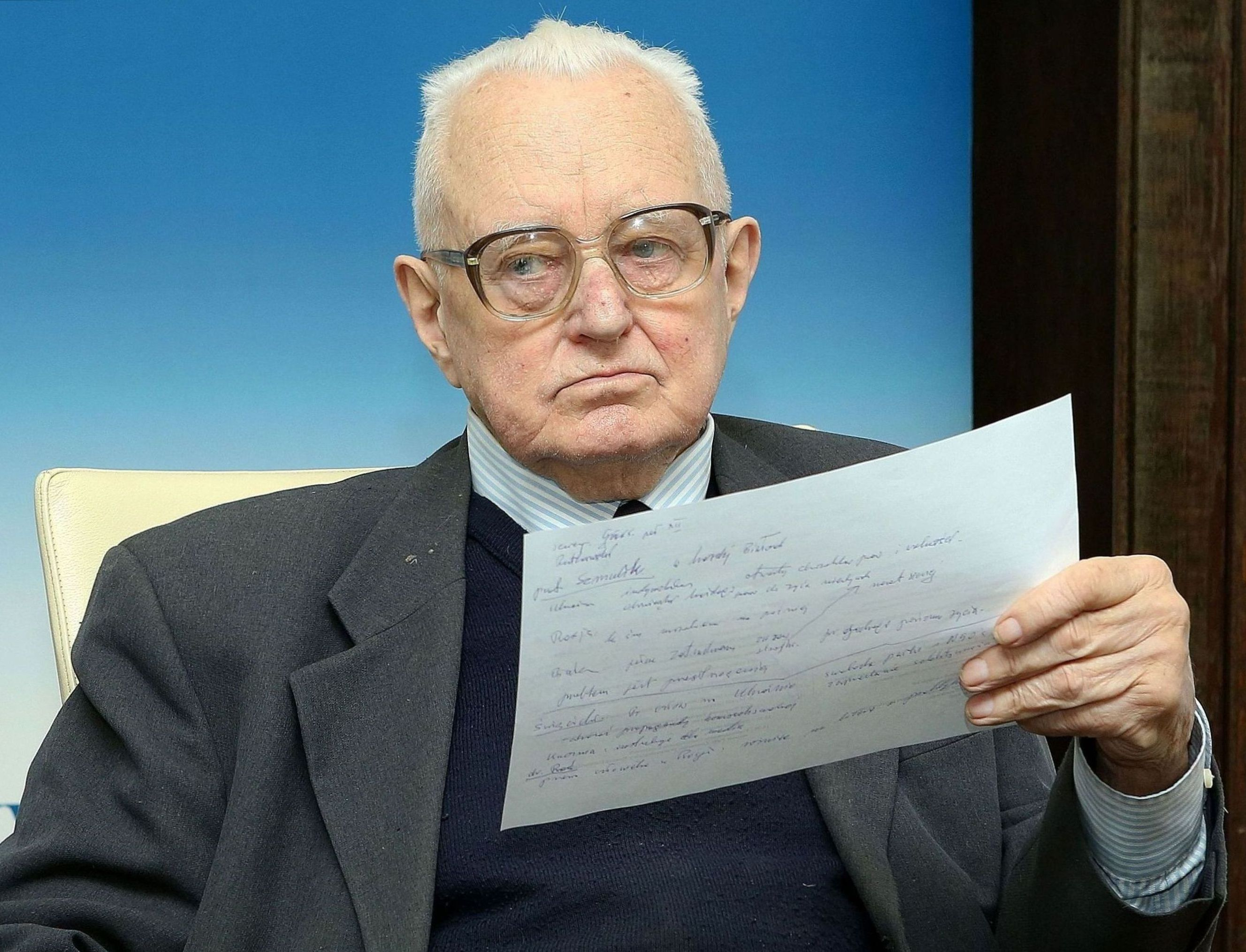 Andrzej Wielowieyski. Conference "Human rights in Central & Eastern Europe and Middle Asia versus international standards" in the Polish Senate